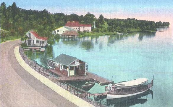 Naples, ME, from the Casino; from a c. 1920 postcard.